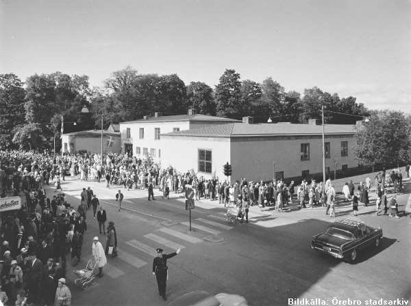 The museum in Örebro, Sweden.